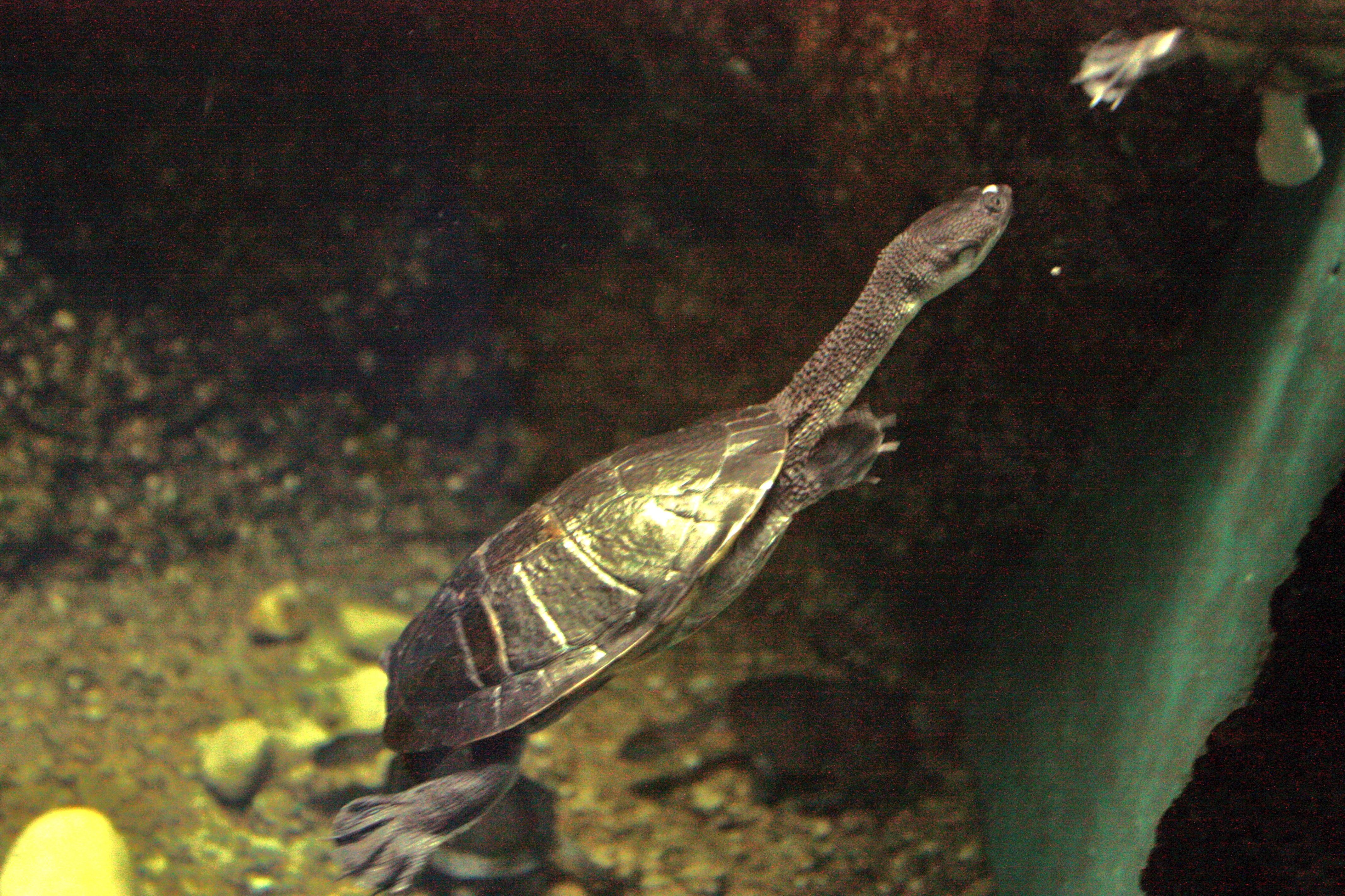 Roti Island snake-necked turtle (Chelodina mccordi). Columbus Zoo, Powell, Ohio.